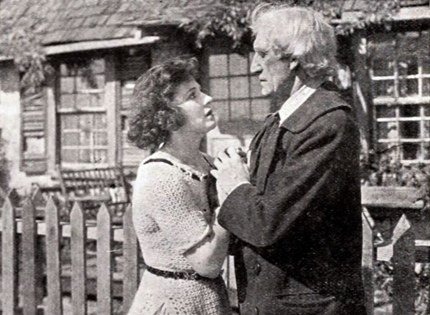 Still from the American drama film The Girl from Rocky Point (1922) with Ora Carew and Walt Whitman, on page 17 of the March 18, 1922 Exhibitors Herald.